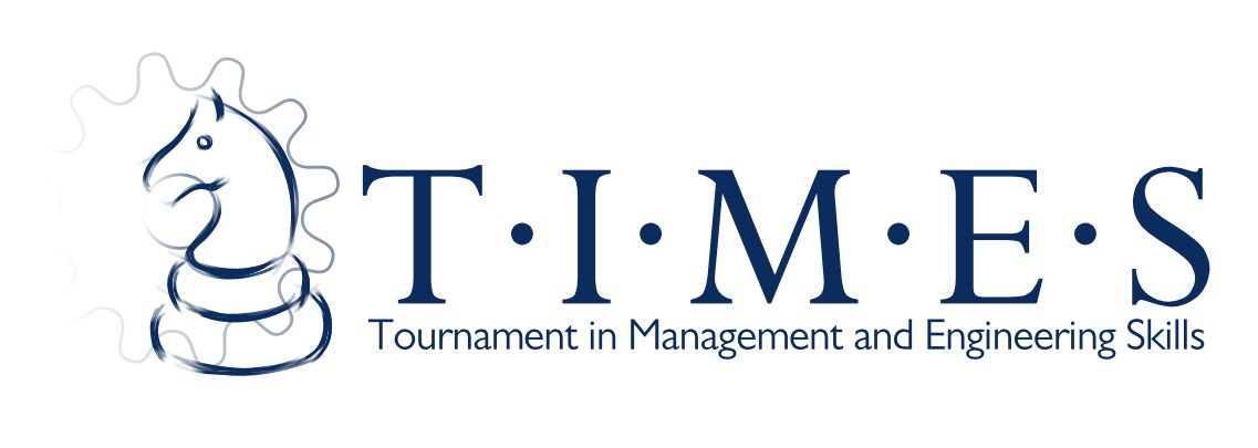 TIMES, ESTIEM